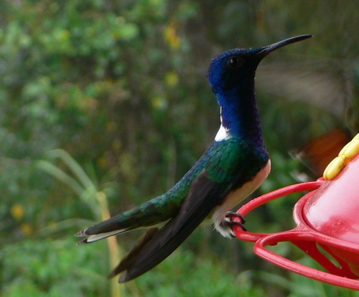 White-necked Jacobin (Florisuga mellivora) at Rancho Naturalista, Costa Rica. My image, February 2006 jimfbleak 07:23, 7 March 2006 (UTC)